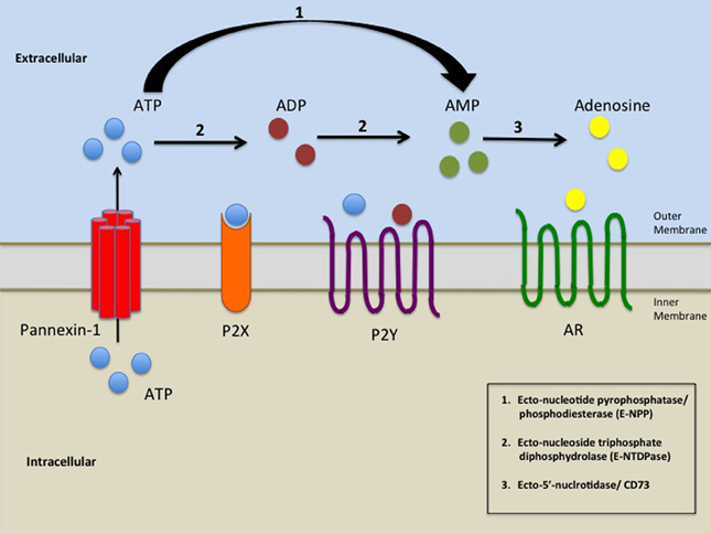 Simplified illustration of extracellular purinergic signalling